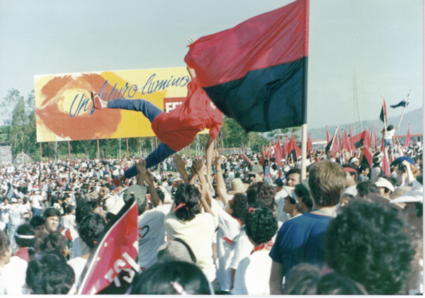 This was a common site on July 19th 1989... folks celebrating the 10th anniversary of the Nicaraguan revolution (overthrowing an oppressive Somoza dictatorship that was heavily supported by the US of A). Reminds us of another country we're currently at war with...nica08